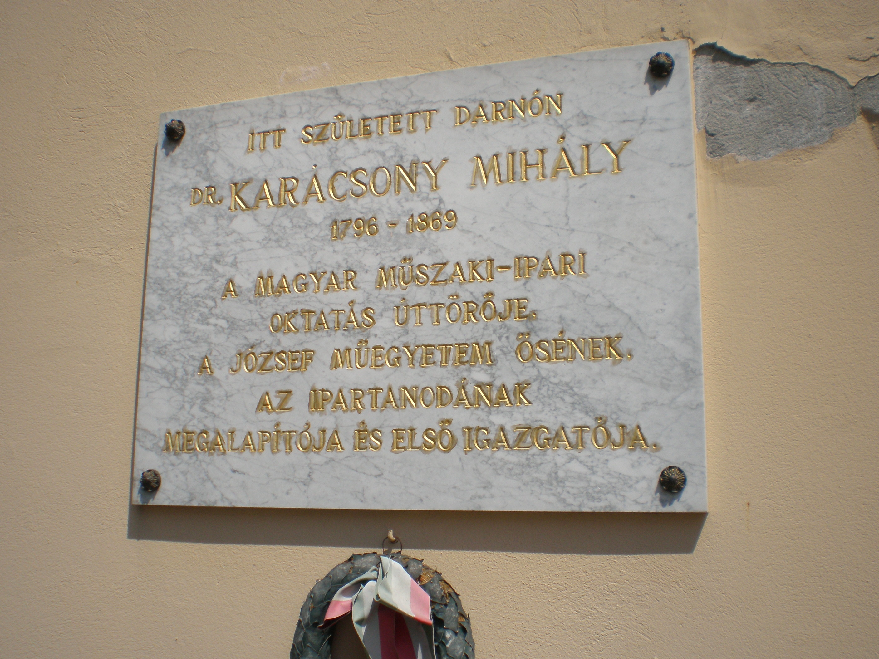 Mihály Karácson commemorative plaque in Darnózseli